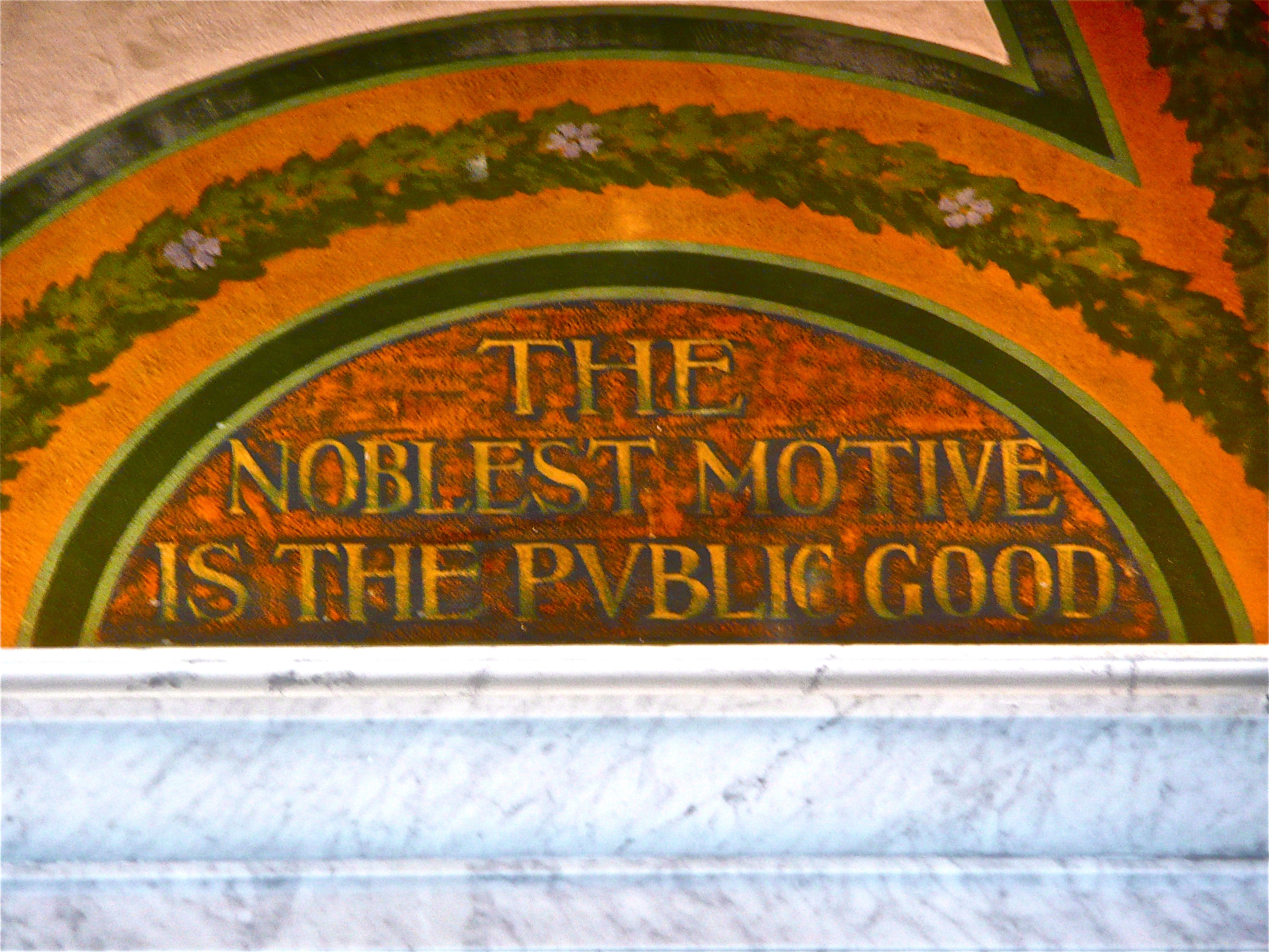 The noblest motive is the public good. Thomas Jefferson Building, Library of Congress, Washington, D.C.. Taken at 2012 Flicker photography meetup.